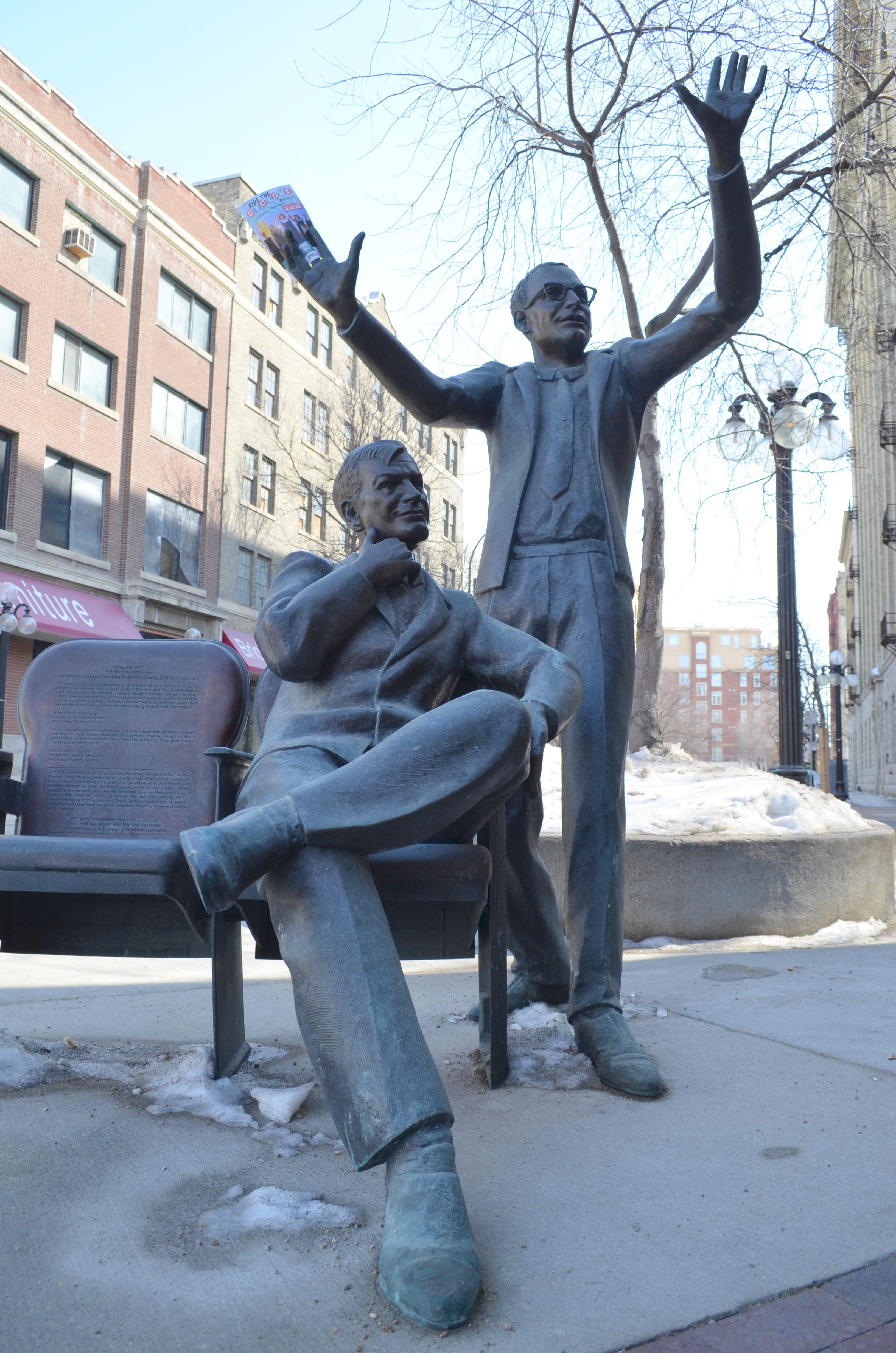 "Imagine, MTC" bronze statue. Located in front of the Manitoba Theatre Centre (174 Market Ave, Winnipeg). Text on the left theatre seat